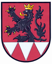 Coat of arms of Žerotín municipality, Olomouc District, Czech Republic